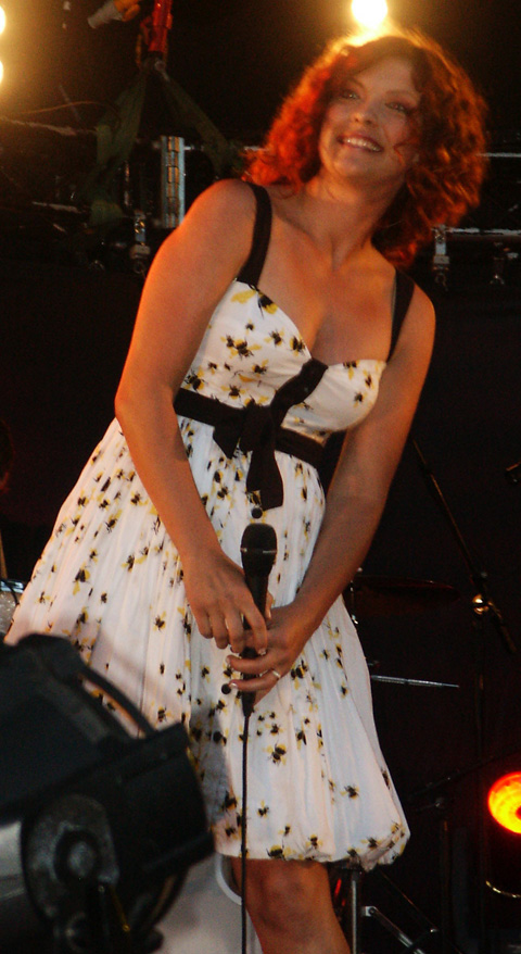 Helena Josefsson, Swedish singer, at Per Gessle's live concert in Helsinborg, Sweden on 19 July, 2007